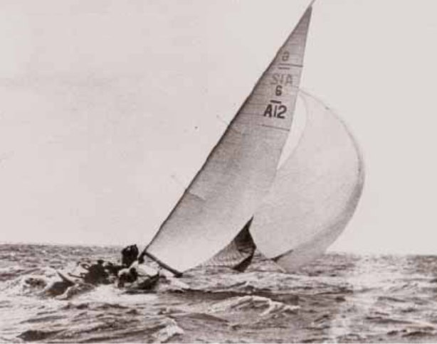 The "Djinn, sailing under Argentine flag during 1948 Summer Olympics. It won the Silver Medal. Craft: Julio Sieburger, Enrique Conrado Sieburger, Emilio Homps, Rufino Rodríguez de la Torre, Enrique Adolfo Sieburger, Rodolfo Rivademar.